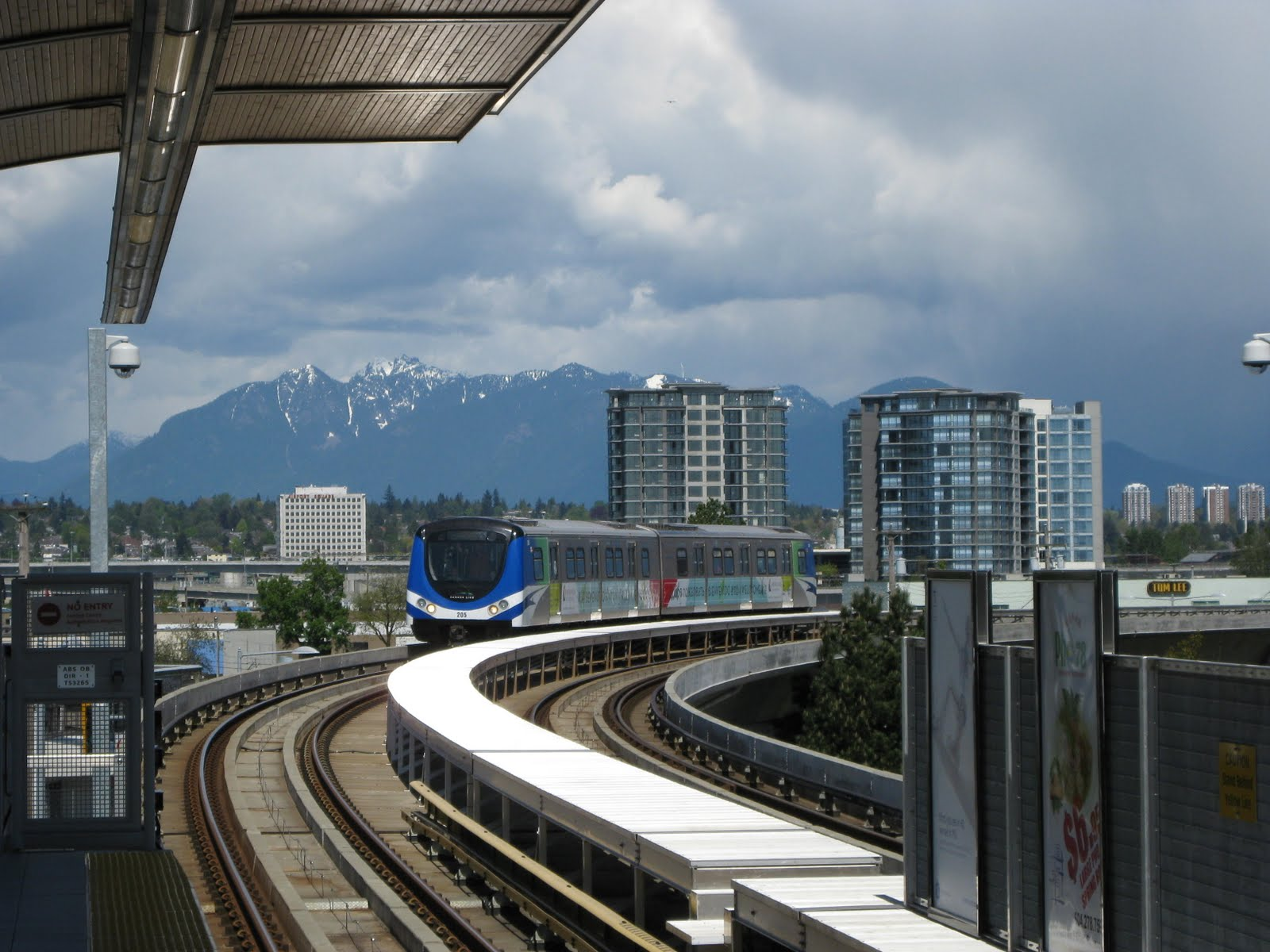 Vancouver Skytrain in a Sunny day